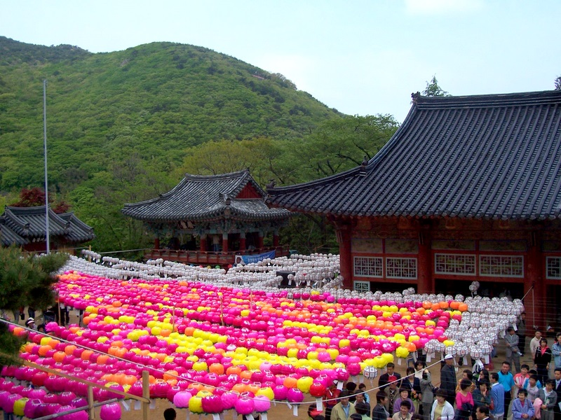 Beomeosa, located in Busan and one of the leading Buddhist temples in South Korea.